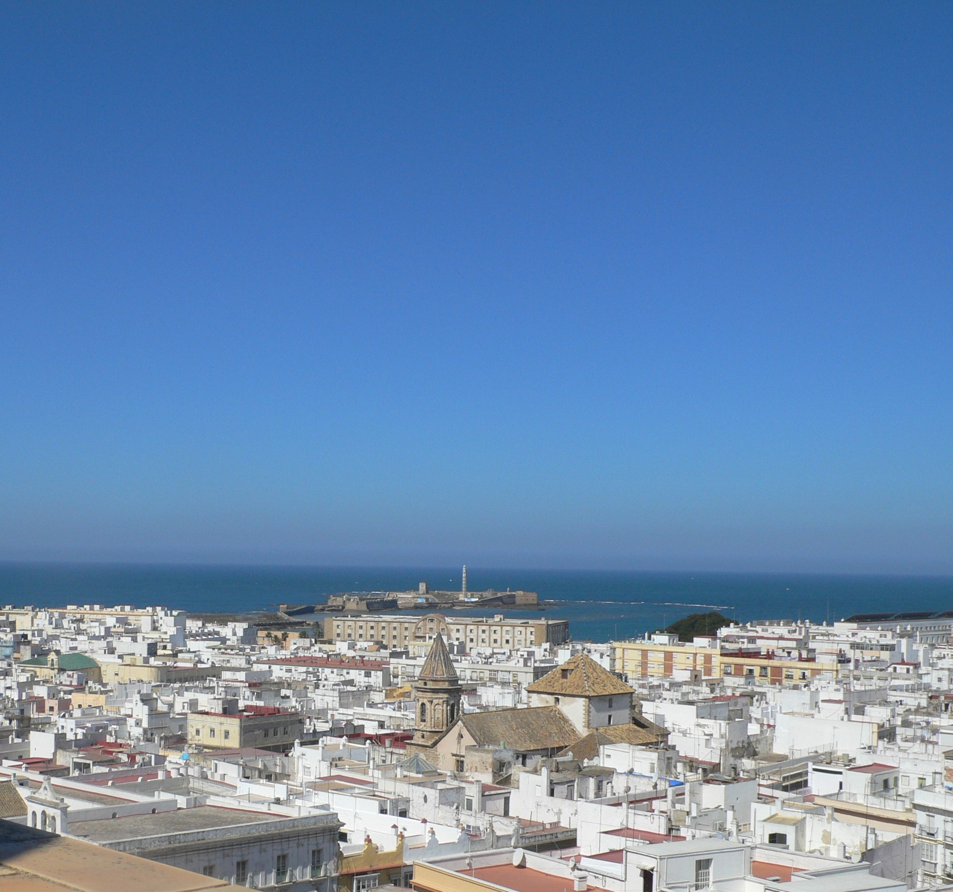 View from Torre Tavira, Cádiz, Andalucia (Spain)